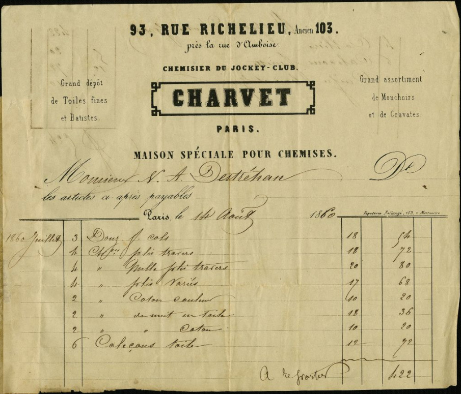 Invoice for shirts, nightshirts, collars, and drawers by the Parisian shirtmaker Charvet to Nicholas Azby Destrehan (1833-1862), a plantation owner.Destrehan Family Papers, MSS 580, Folder 149. Williams Research Center, The Historic New Orleans Collection.